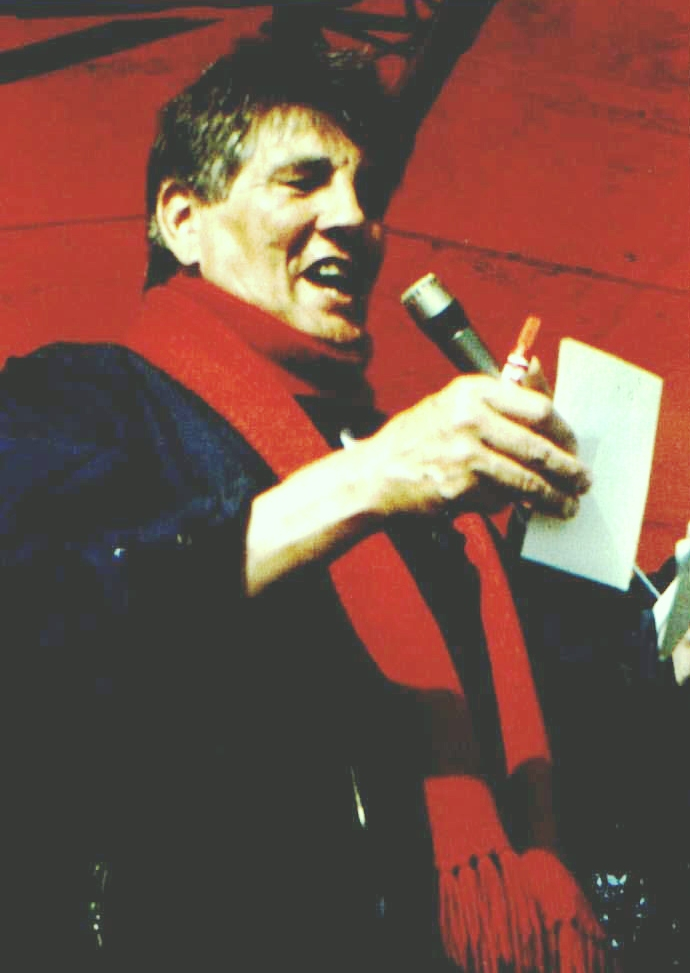 German stunt performer Arnim Dahl at the age of 65 years.